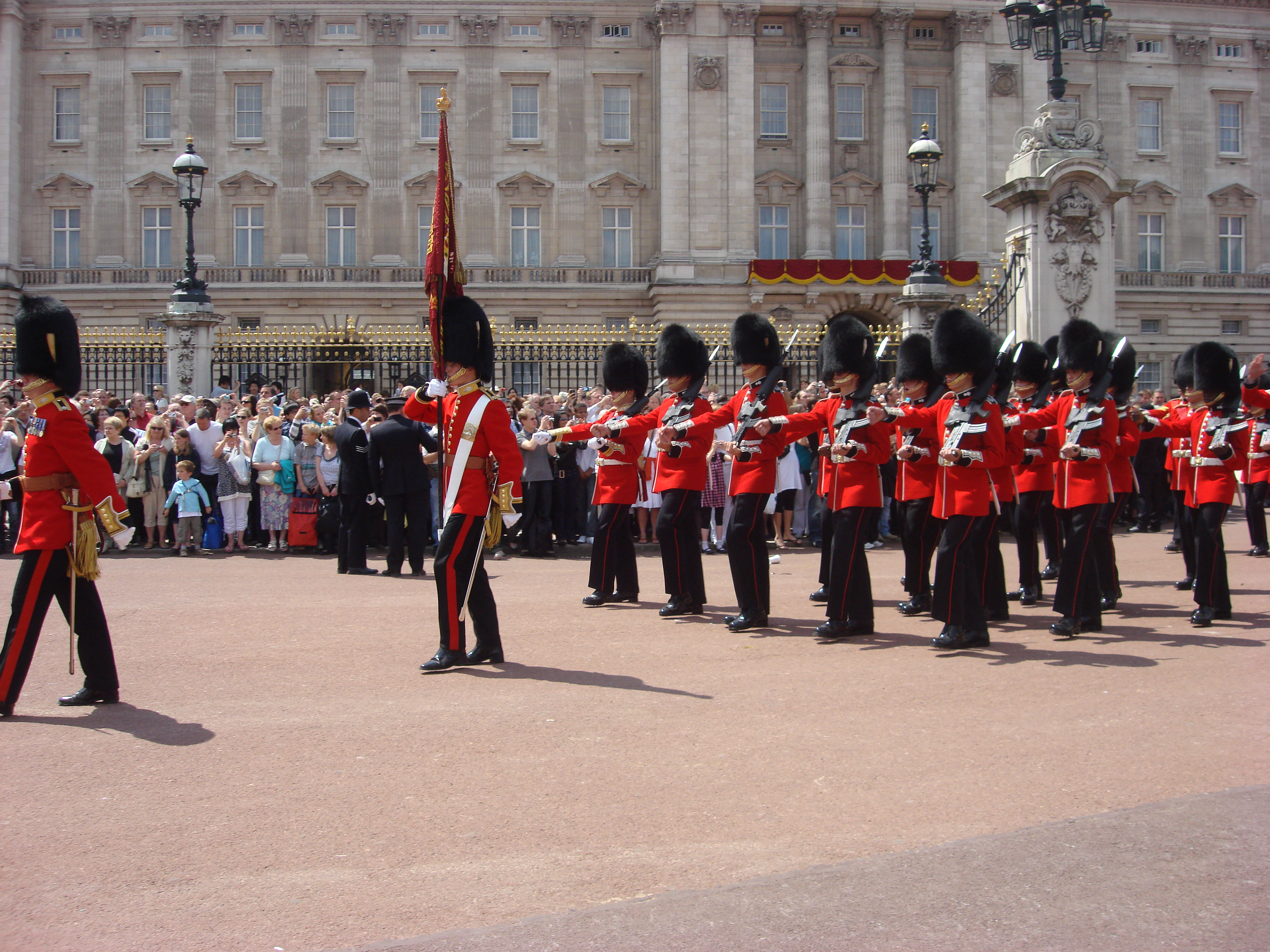 Trooping the Colour 2009